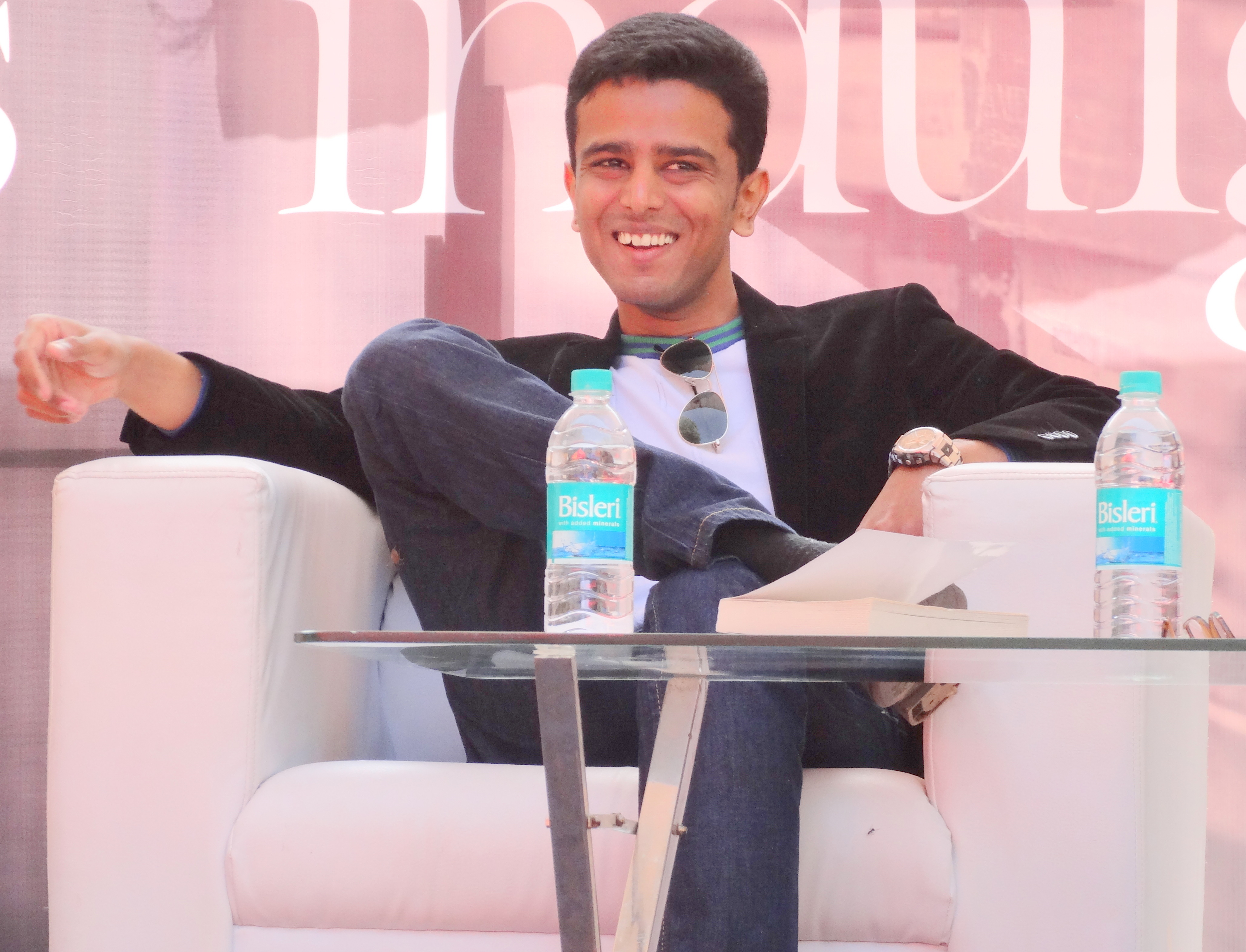 Faraaz Kazi speaking at the TOI Bangalore Literary Carnival organised by the Times of India and held at Jayamahal Palace, Bangalore in January.